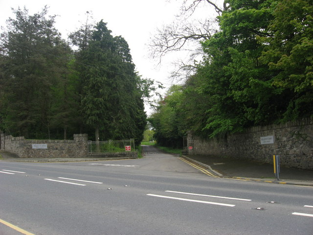 Gates to New Mellifont, Collon Gateway from the N2 to the Cistercian monastery of New Mellifont, formerly Oriel Temple of the Foster estate.